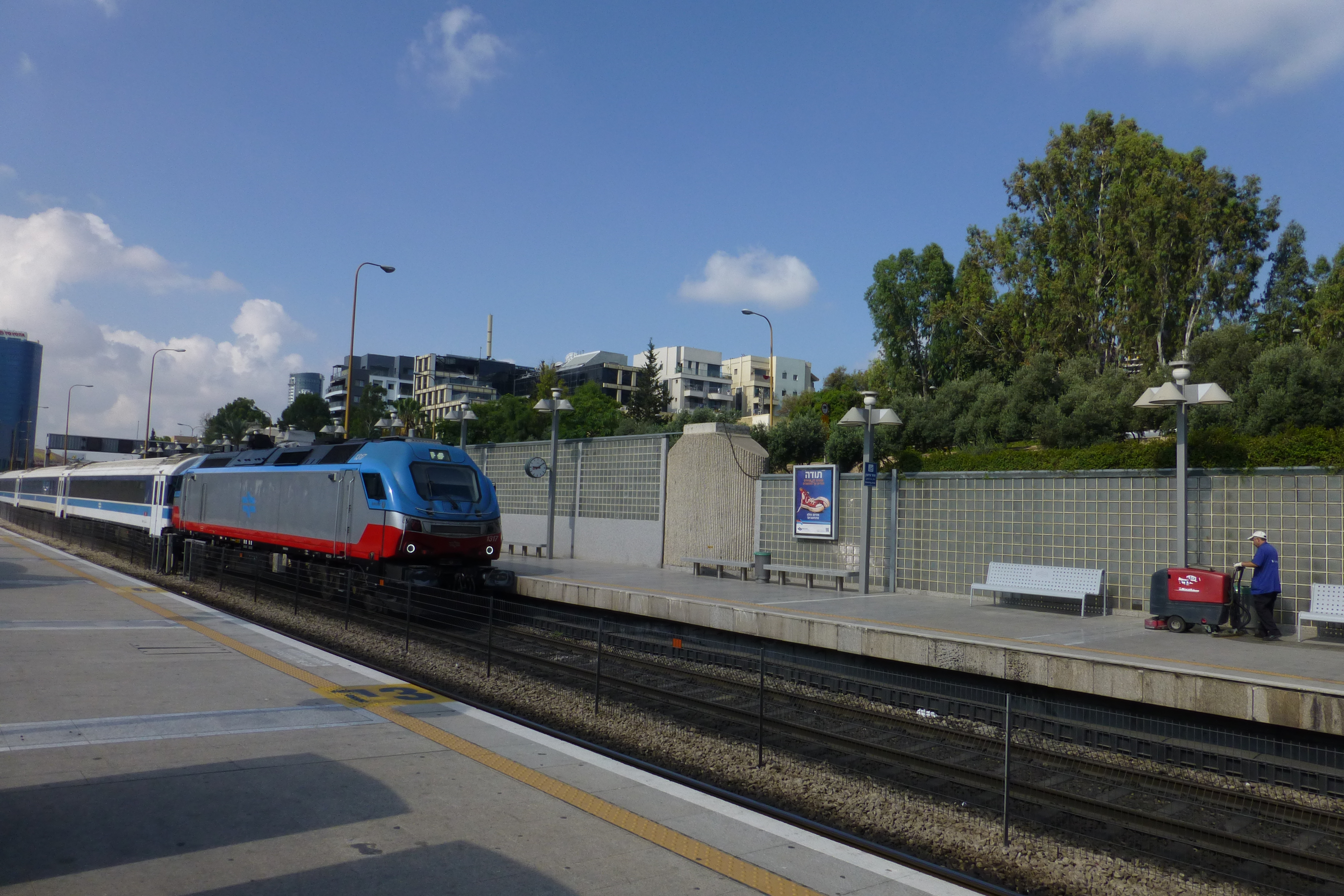 Tel Aviv HaShalom train station